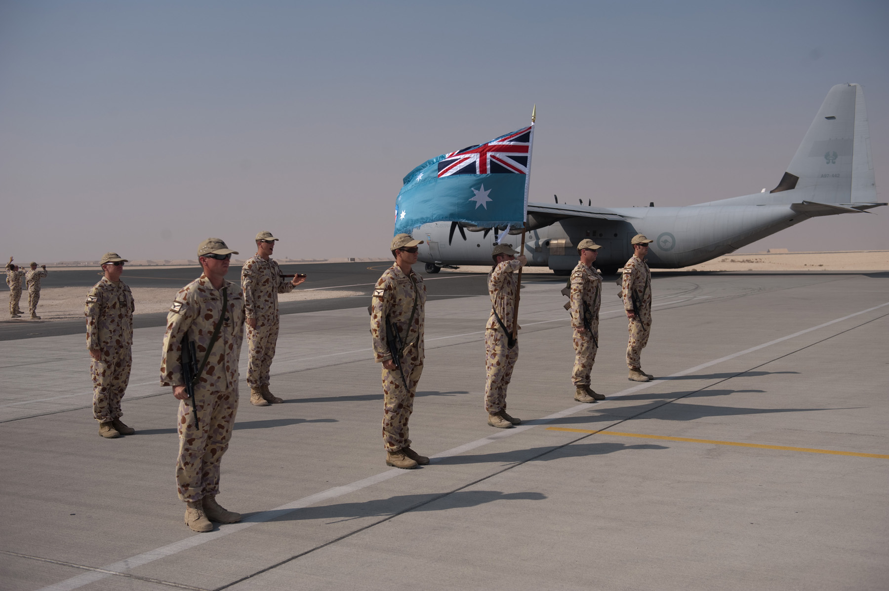 A Royal Australian Air Force honor guard from No. 37 Squadron renders honors to the last C-130J to take off on a mission from here, Nov. 5, 2009, in Southwest Asia. The squadron is moving its operations to another location in Southwest Asia after six years of operating out of this undisclosed location in SWA. Members are deployed from RAAF Base Richmond, New South Wales, Australia in support of Operation Slipper, Australian's military contribution to international campaigns against terrorism.